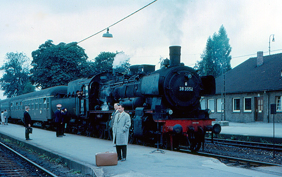 A German DB class 38 steam locomotive. Class 38 (later class 038) Class 38 was originally built as class P 8 of the Prussian state railroad (KPEV). About 3700 locomotives were built from 1908 to 1926. They were used for a great variety of passenger and freight trains. In 1965, they were mainly for mid-level passenger trains. Top speed was 100 km/h. Some remained in regular service until 1974. The locomotive had a 2'C wheel arrangement. Original description: A German DB class 38 steam locomotive, probably on a train that we were about to board. Class 38 (later class 038) Class 38 was originally built as class P 8 of the Prussian state railroad (KPEV)/ About 3,700 locomotives were built from 1908 to 1926. They were used for a great variety of passenger and freight trains. In 1965, they were mainly for mid-level passenger trains. Top speed was 100 kph (62 mph). Some remained in regular service until 1974. The locomotive had a 2 C (4-6-0) wheel arrangement. Crailsheim was the major railroad junction in the area, We changed trains in Crailsheim on most of our train trips. It was an area where steam locomotives remained in service longer, as they were replaced by electric and diesel locomotives in other parts of Germany. I bought an original set of number plates of a class 38 locomotive that had been scrapped in the late 1960s. I still have the plates displayed on a wall at home.